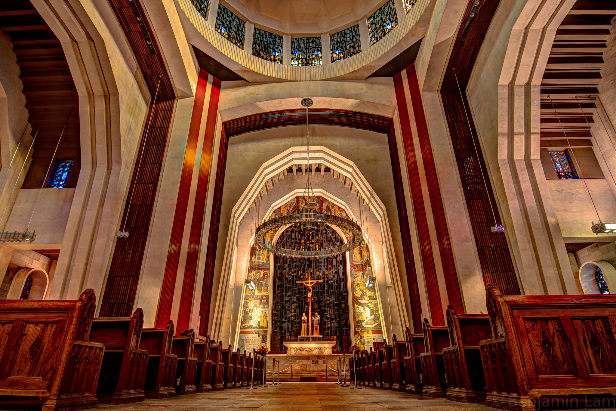 Saint Joseph's Oratory Basilica Interior